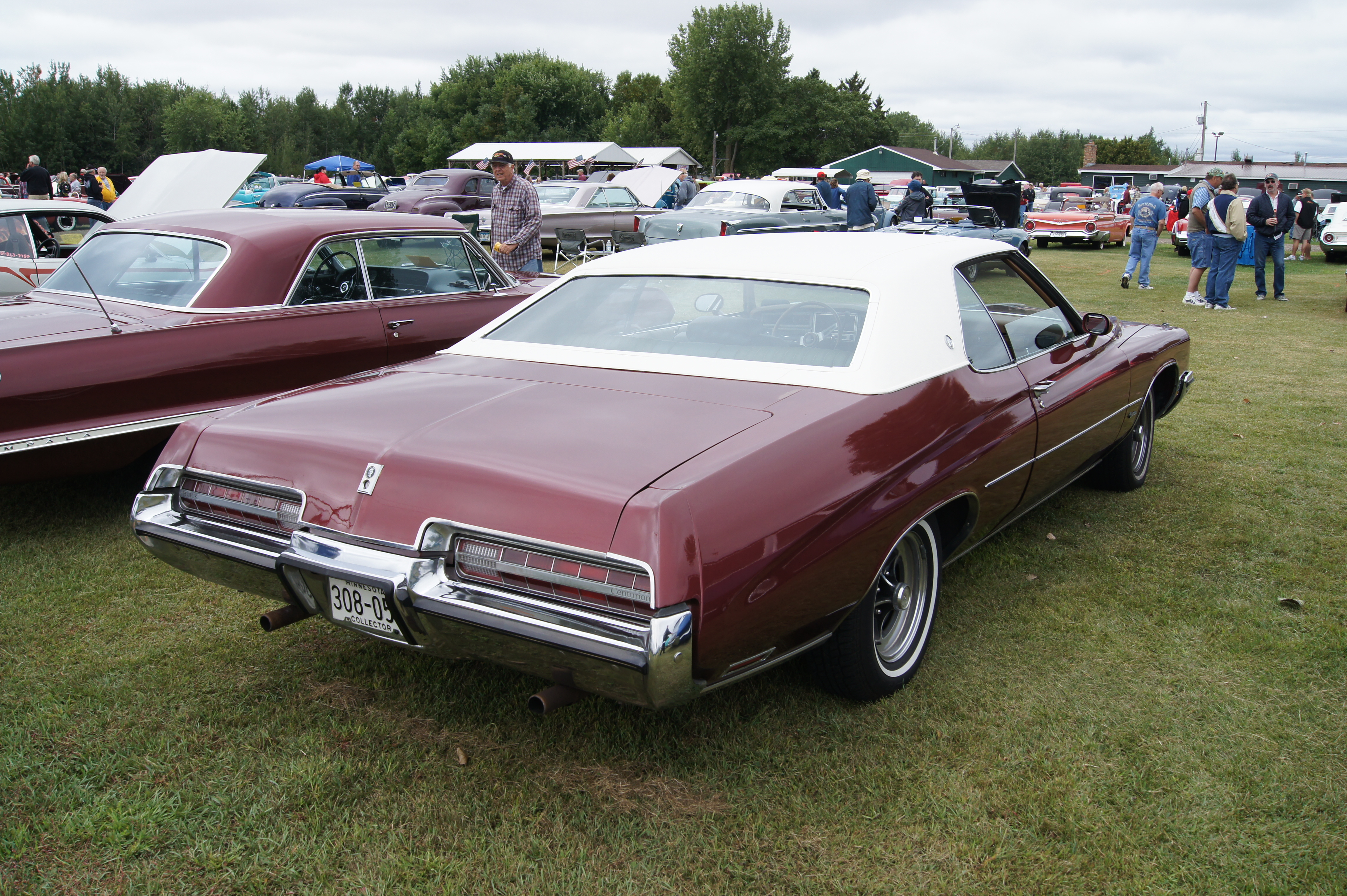 North Star Chapter Studebaker Drivers Club 13th Annual Labor Day Car Show September 2, 2013 Blacksmith Lounge Hugo, MN More Car Pictures